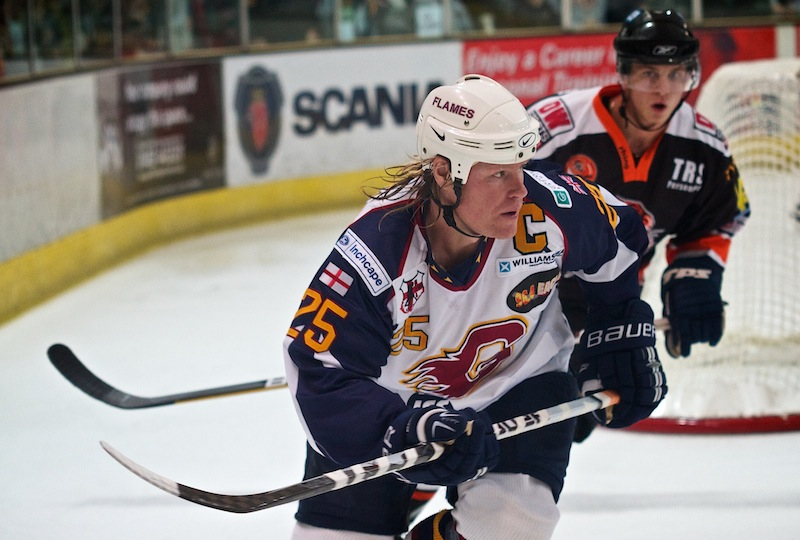 David Longstaff in action for the Guildford Flames